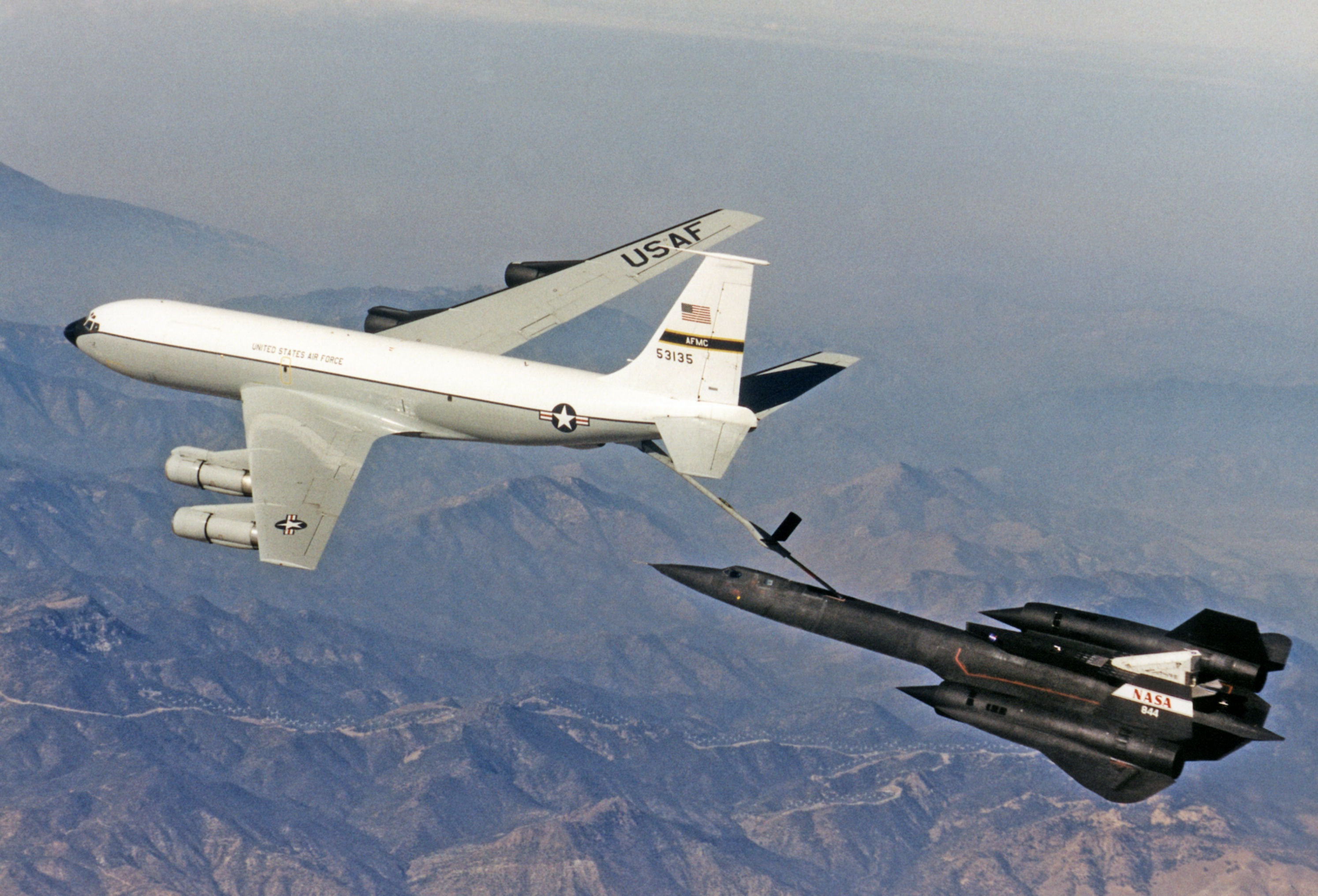 The NASA Lockheed SR-71A (USAF s/n 61-7980), refuels from an USAF Lockheed NKC-135E Stratotanker (s/n 54-3135) from Edwards Air Force Base during the first flight of the NASA/Rocketdyne/Lockheed Martin Linear Aerospike SR-71 Experiment (LASRE). The flight took place on 31 October 1997 at NASA's Dryden Flight Research Center, Edwards, California. The SR-71 took off at 08:31 hrs (local time). The aircraft flew for one hour and fifty minutes, reaching a maximum speed of Mach 1.2 before landing at Edwards at 10:21 hrs, successfully validating the SR-71/linear aerospike experiment configuration. The goal of the first flight was to evaluate the aerodynamic characteristics and the handling of the SR-71/linear aerospike experiment configuration. The engine was not fired during the flight.